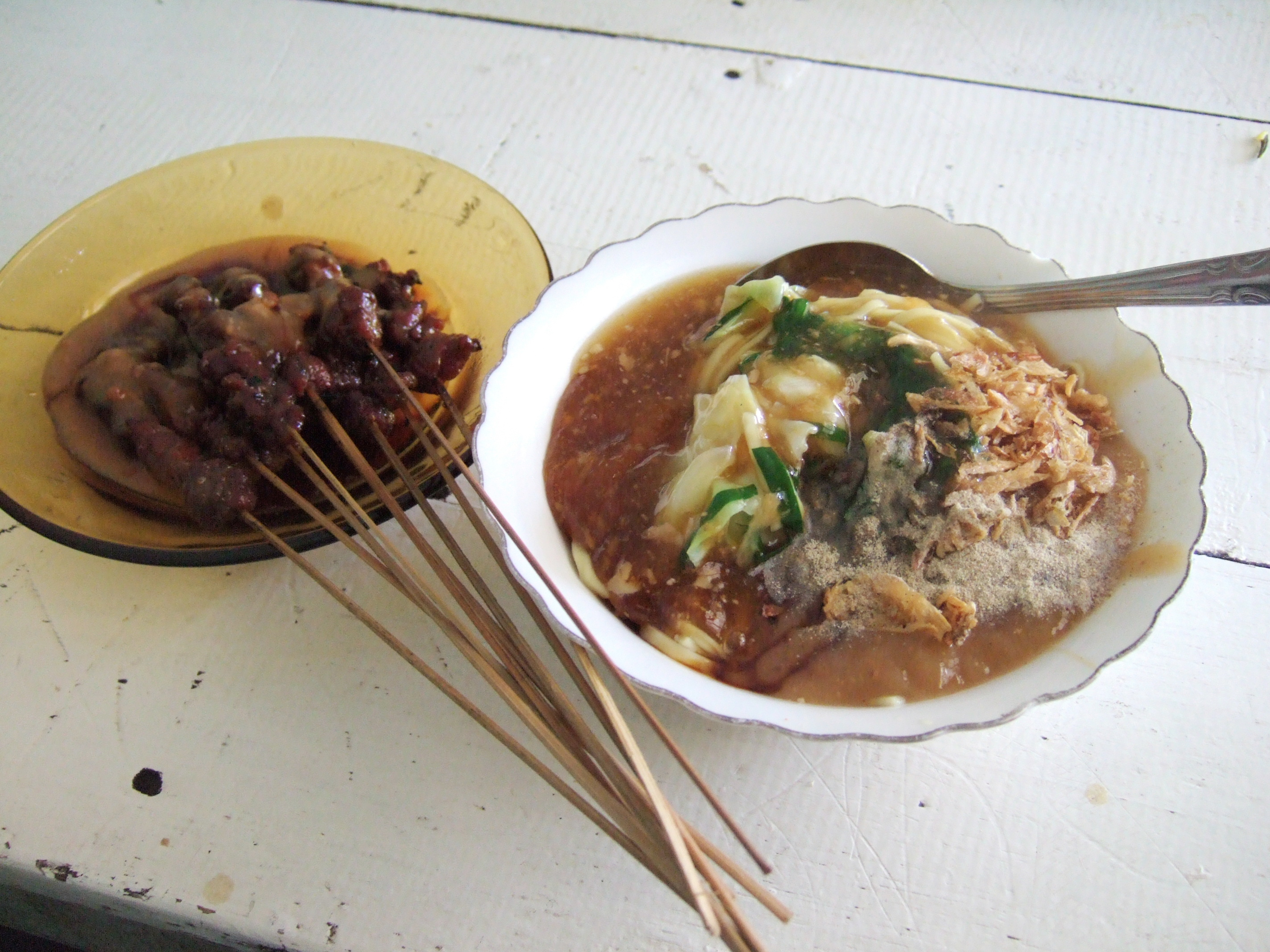 Ongklok noodle of Wonosobo with beef satay